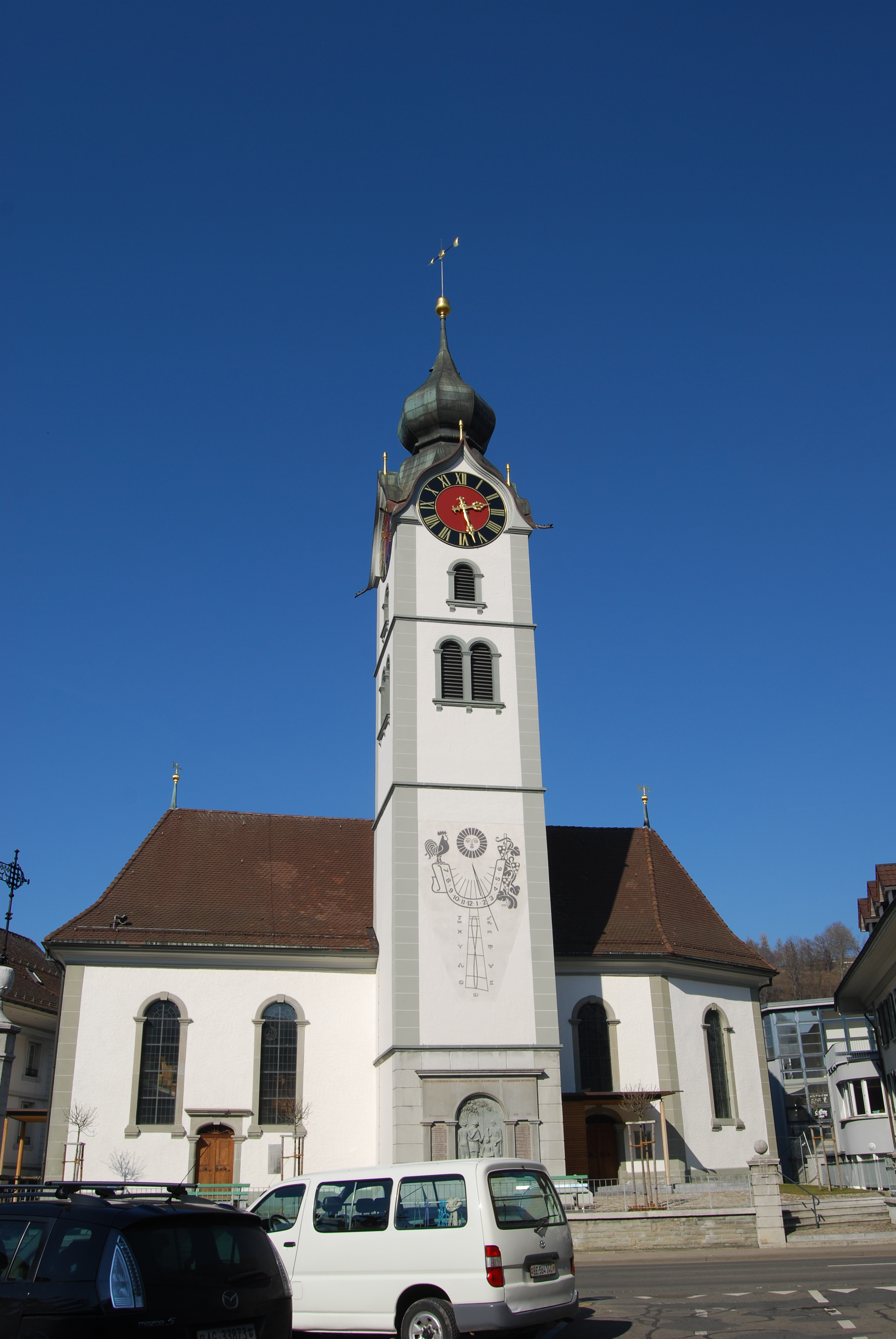 Protestant Church of Huttwil, canton of Bern, Switzerland